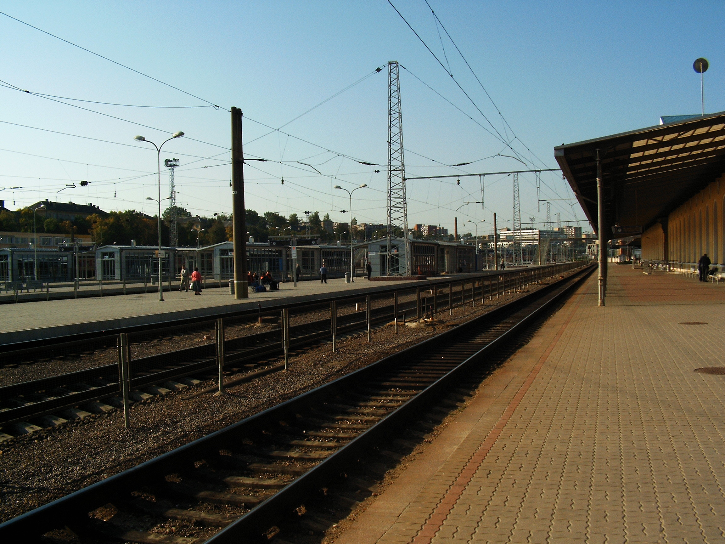 Vilnius Railway Station